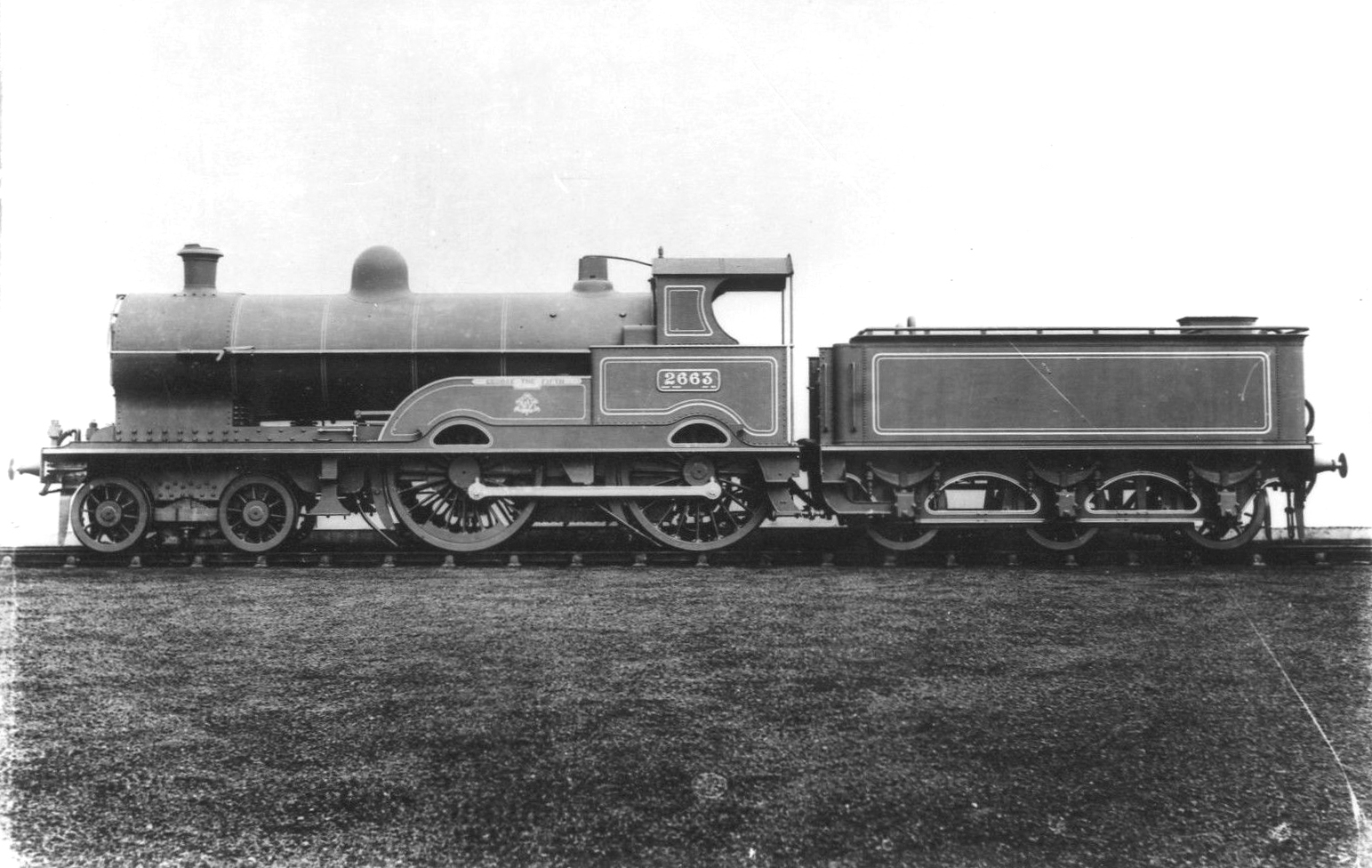 Photograph of LNWR engine No. 2663 'George the Fifth'